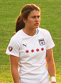 English footballer Karen Carney. Photo taken playing for the Chicago Red Stars vs. the St.Louis Athletica, in Fenton MO.